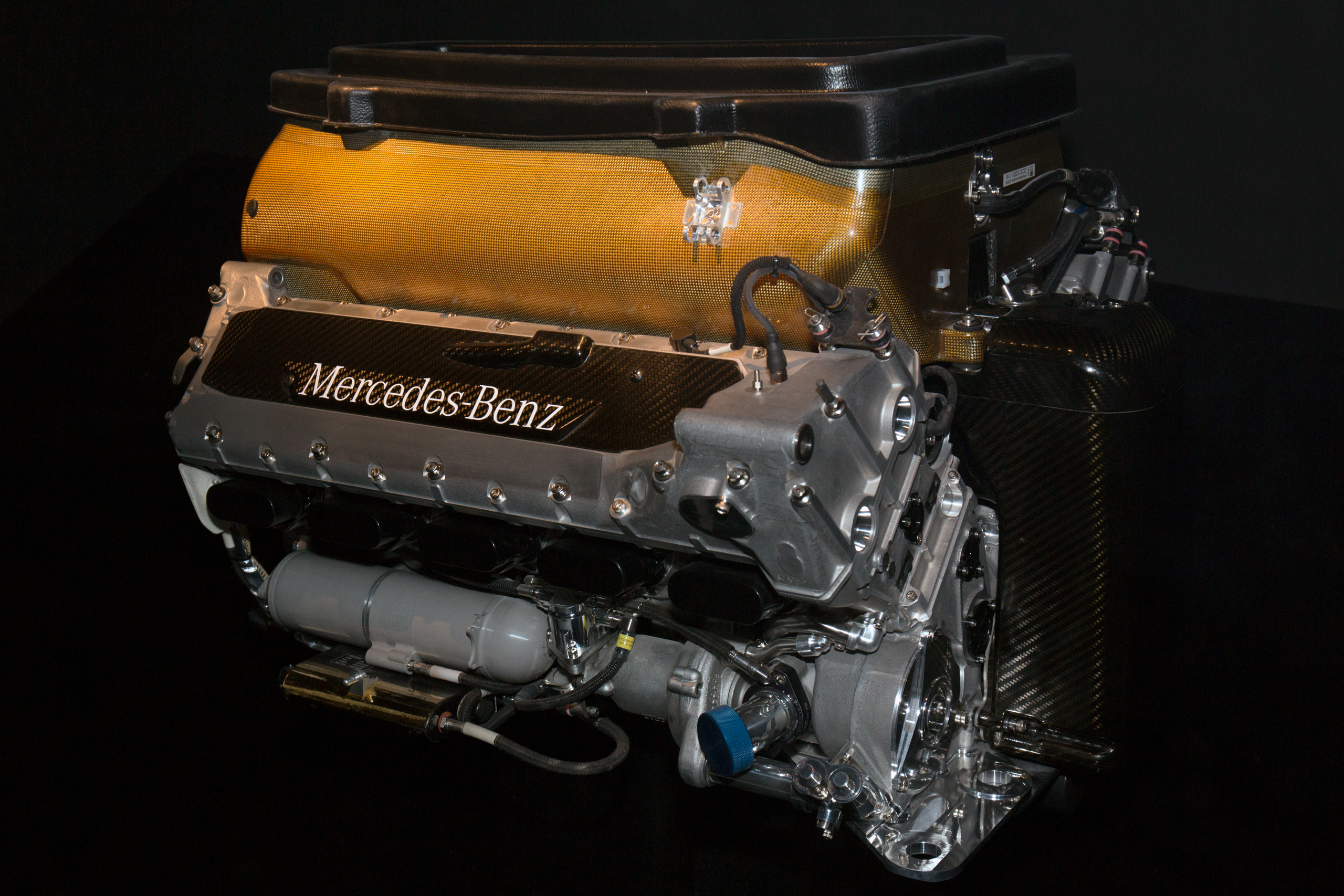 2002 Mercedes-Benz FO 110 M Formula One engine